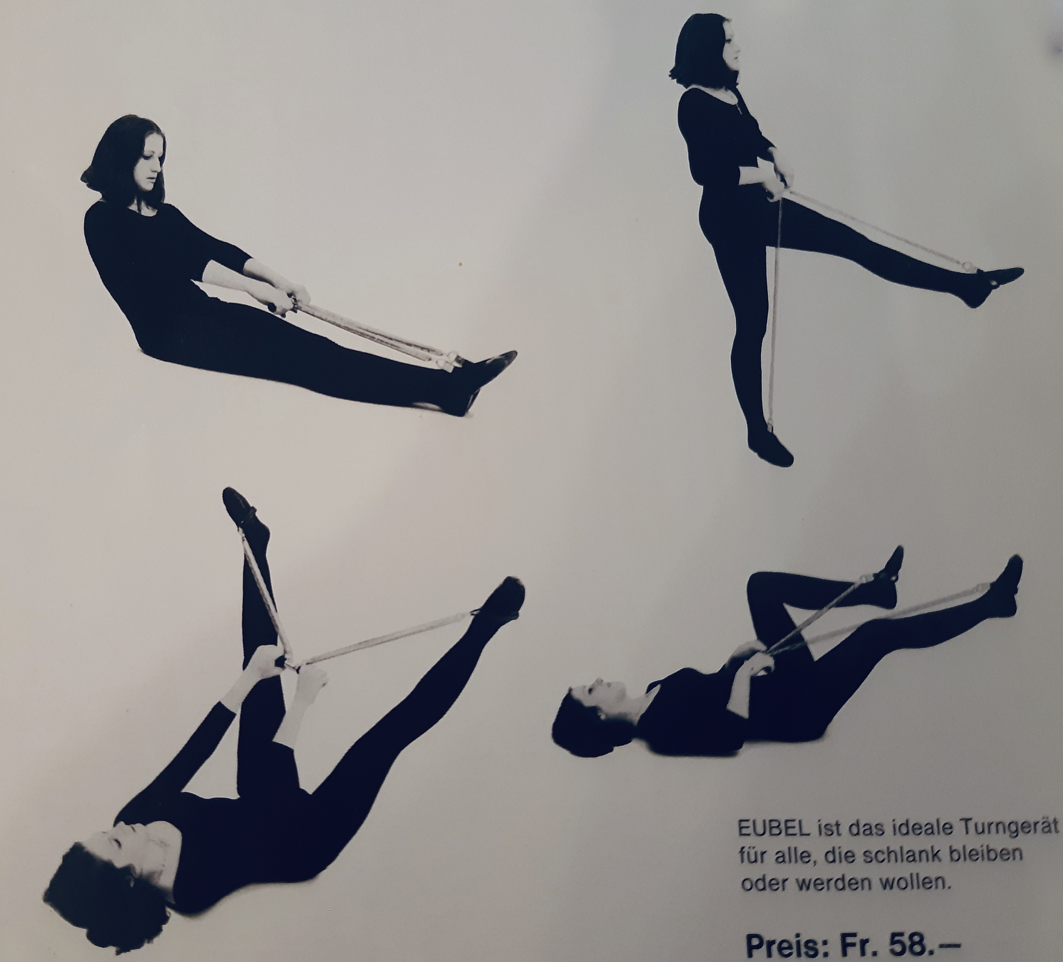 EUBEL GYM 1972